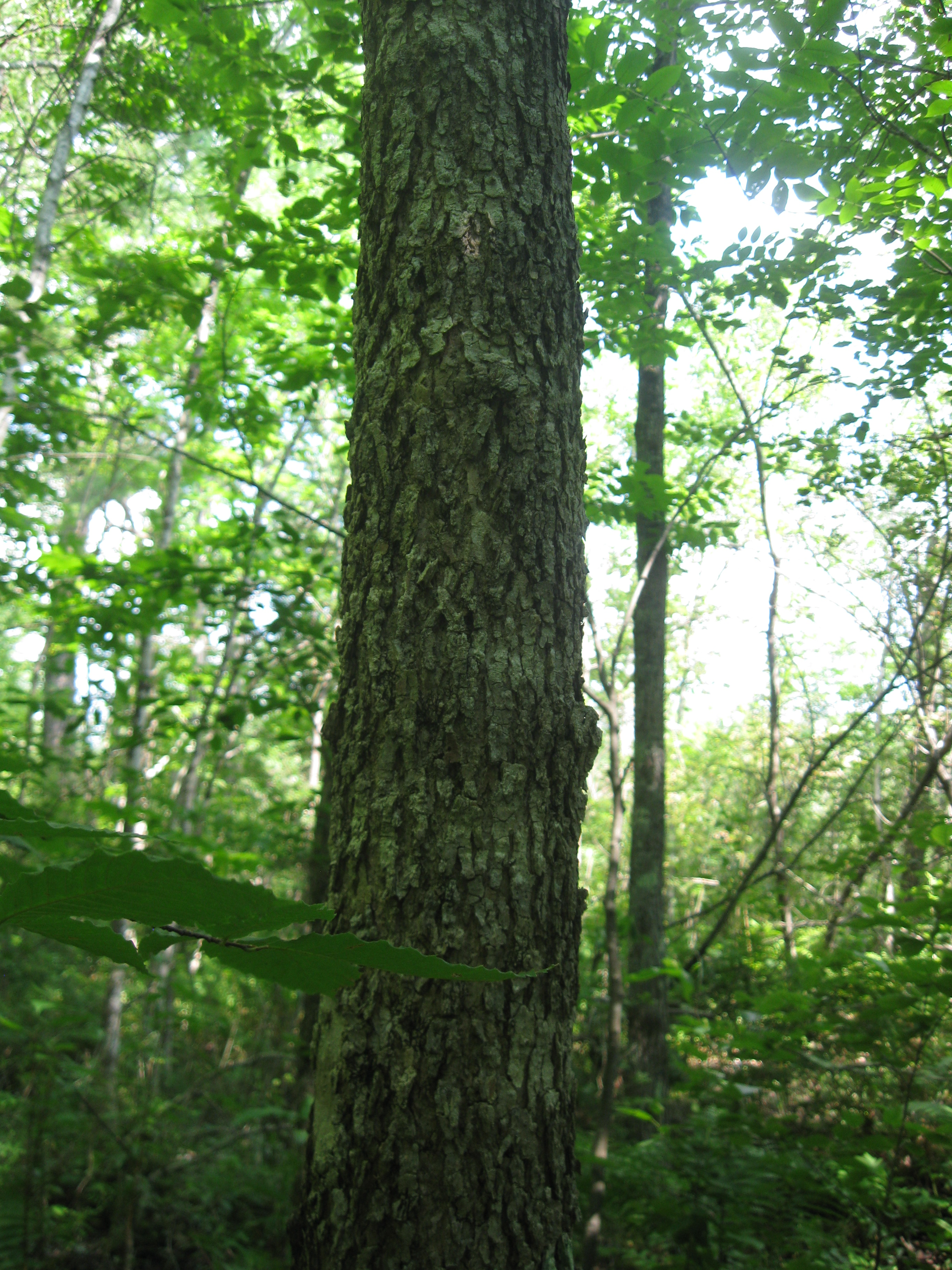 Image of black ash bark. Bark is corky and spongy. Tree is growing in a seasonally wet, riparian habitat.